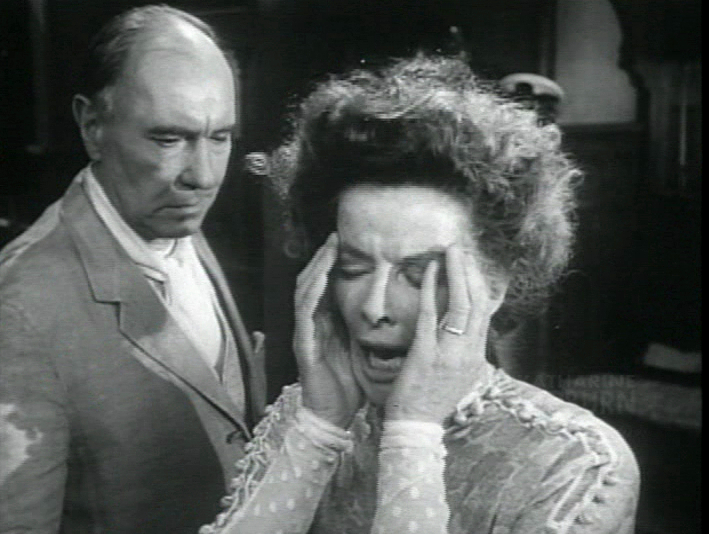 Screenshot of Katharine Hepburn and Ralph Richardson in the film Long Day's Journey Into Night (1962), taken from the film's trailer.